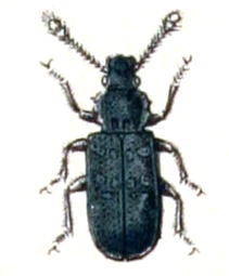 Phloeostichus denticollis, from Calwer's Käferbuch, Table 15, Picture 9. Taxonomy was updated to 2008, using mostly the sites Fauna Europaea and BioLib. Please contact Sarefo if the determination is wrong!